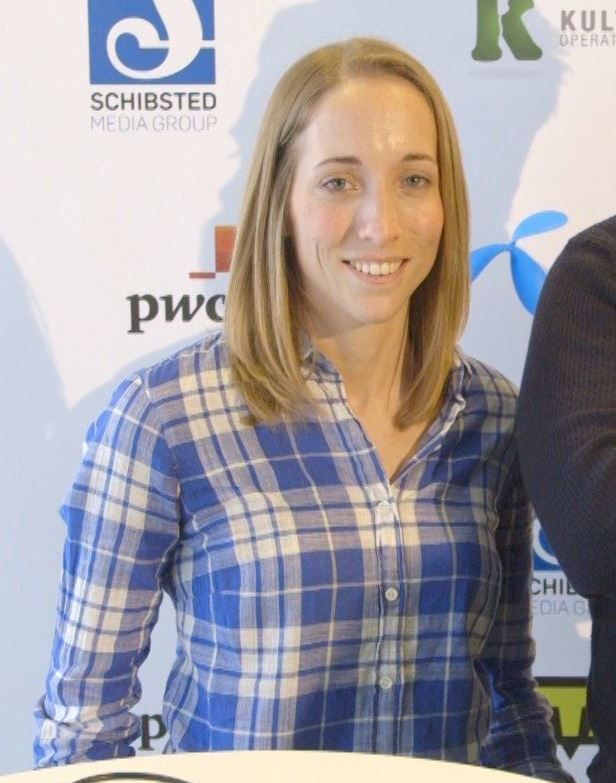 Runa Sandvik at Nordiske Mediedager in 2015